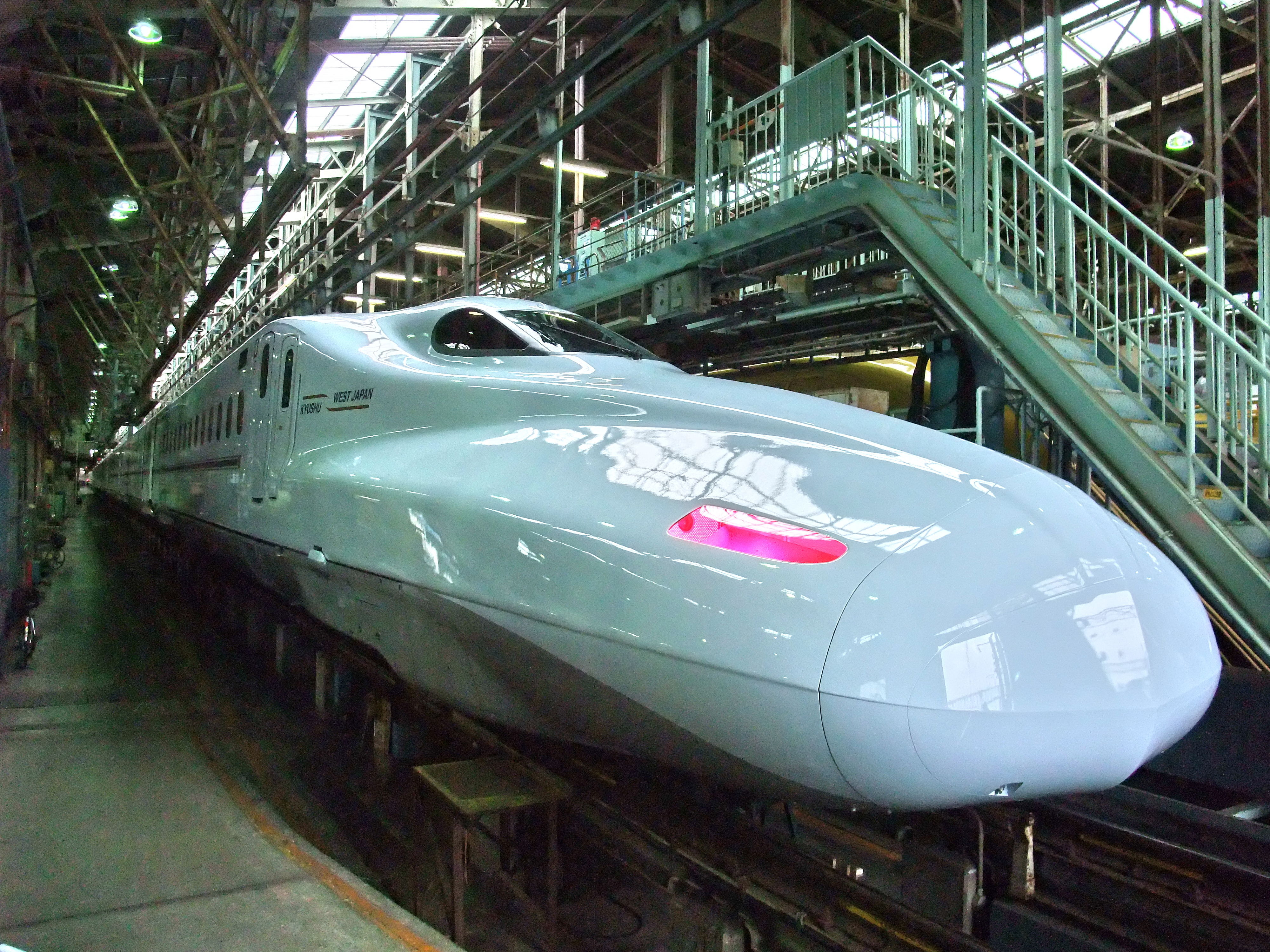 JR N700-7000series